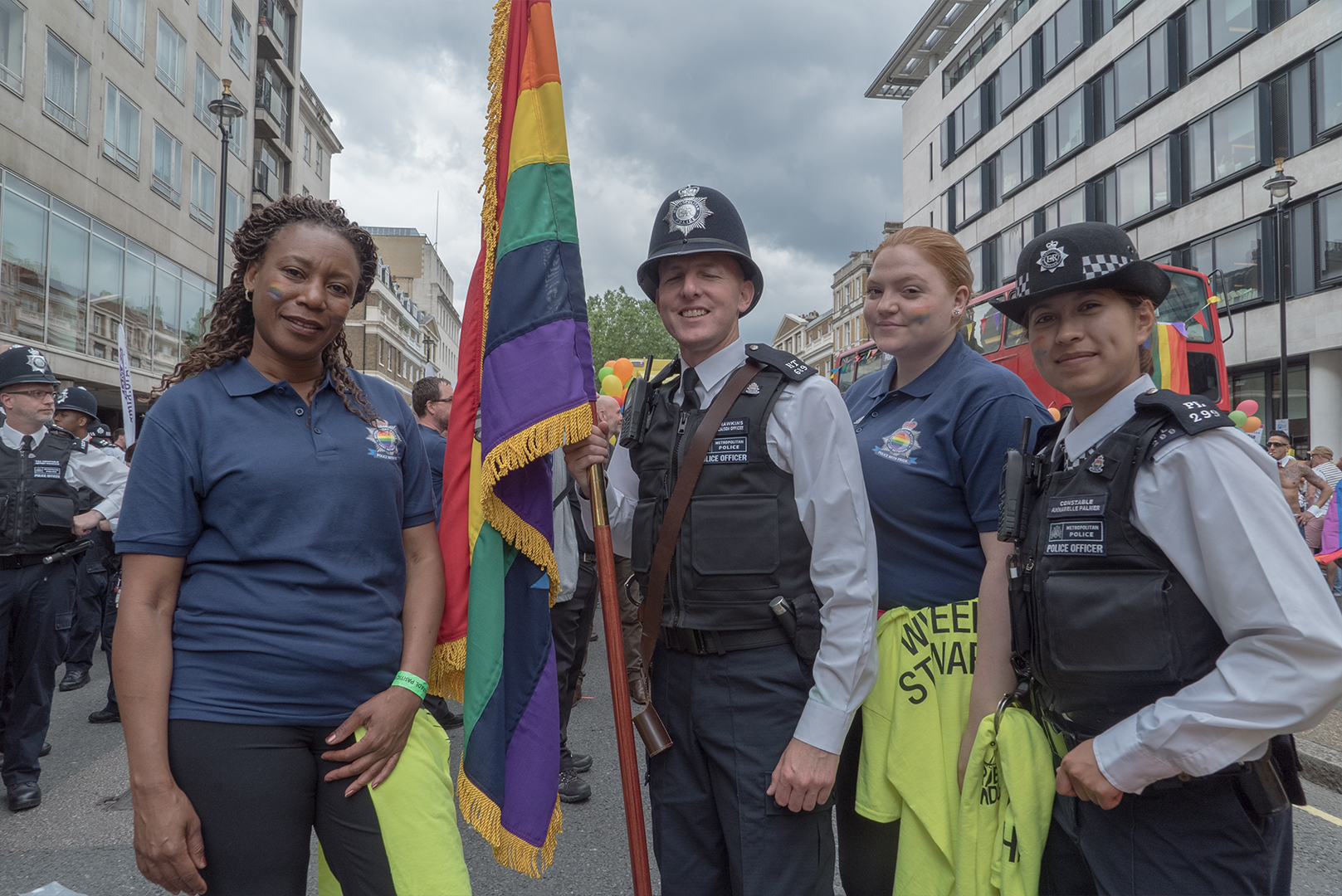 Attendees at Pride in London.